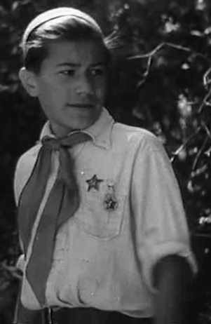 Nikolai Kutuzov as Geika in Timur i ego komanda (1940)